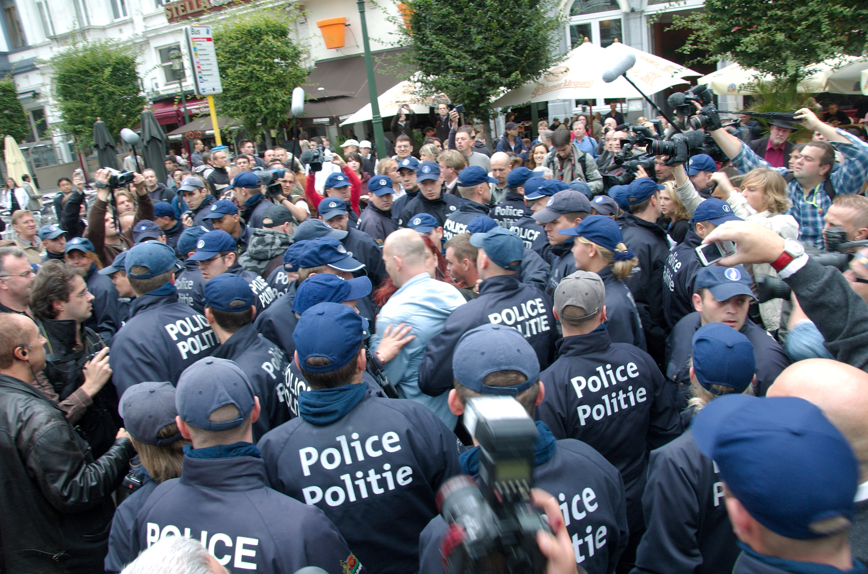 Image of a demonstration staged by the group Stop of the Islamification of Europe